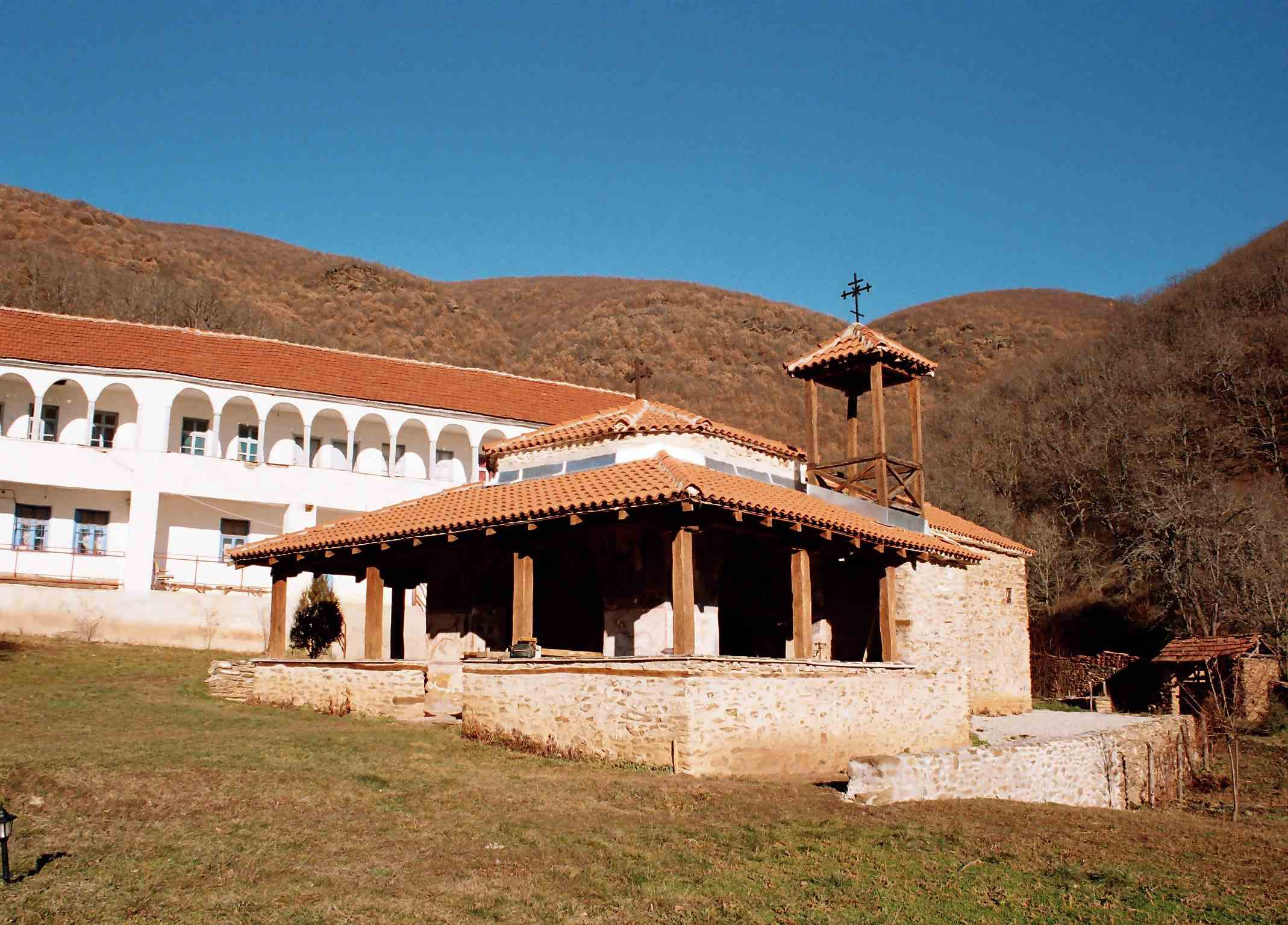 Sv._Atanasie_Zurce